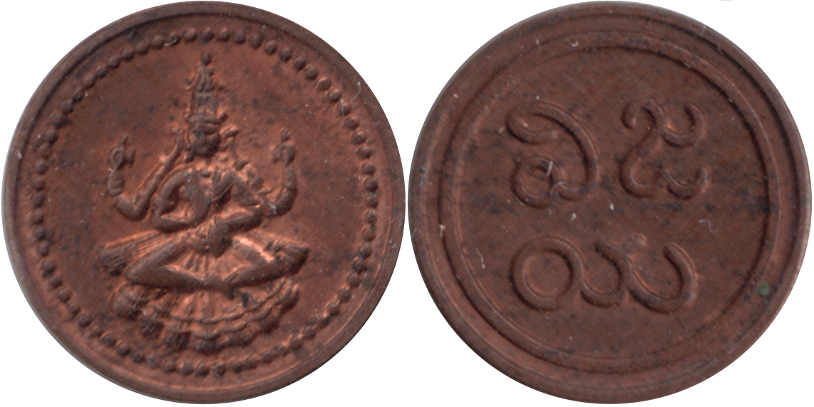 1 amman cash coin (1889-1906)